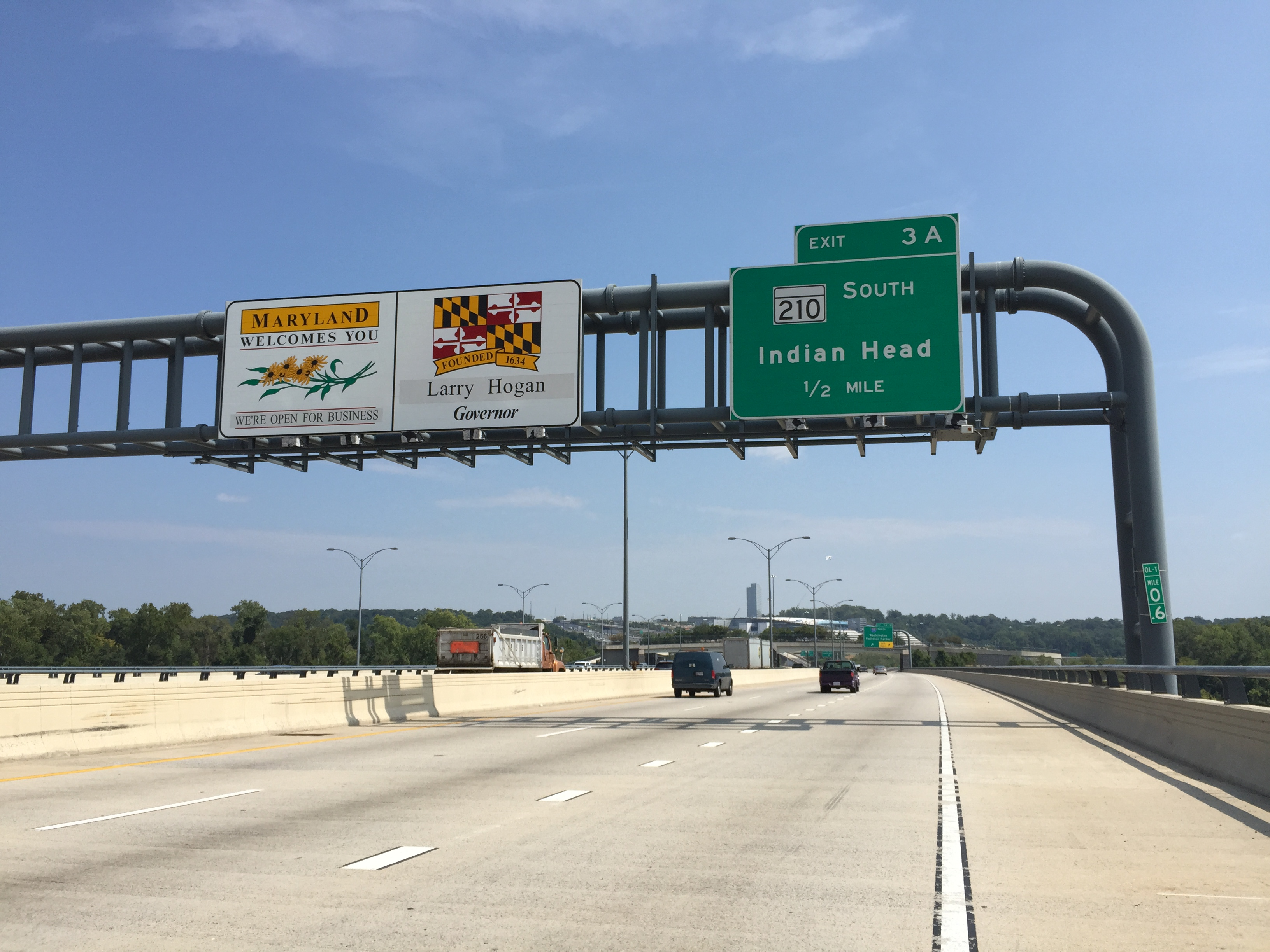 "Maryland Welcomes You" sign along northbound Interstate 95 and the outer loop of the Capital Beltway (Interstate 495) as it crosses the Potomac River on the Woodrow Wilson Bridge in National Harbor, Prince Georges County, Maryland